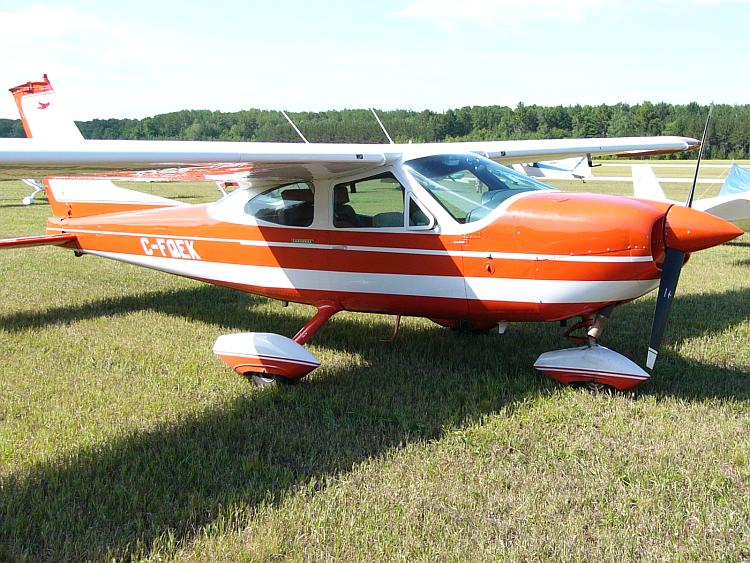 Photo of an original 1968 model Cessna 177 Cardinal (C-FQEK).